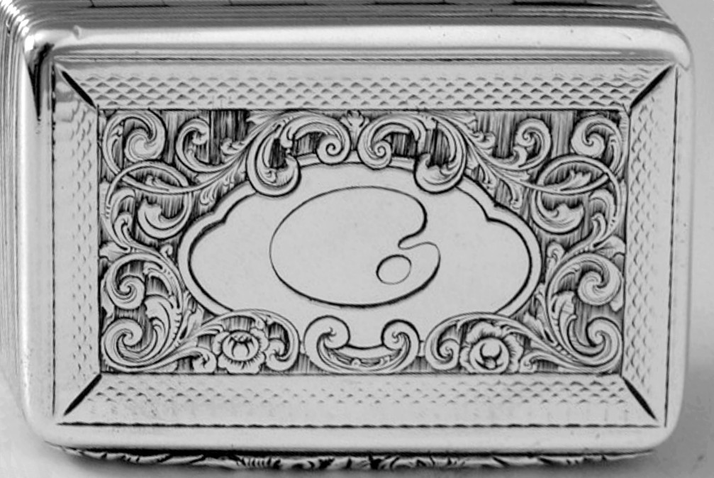 Victorian sterling silver snuff box by Francis Crump, hallmarked in Birmingham, 1838